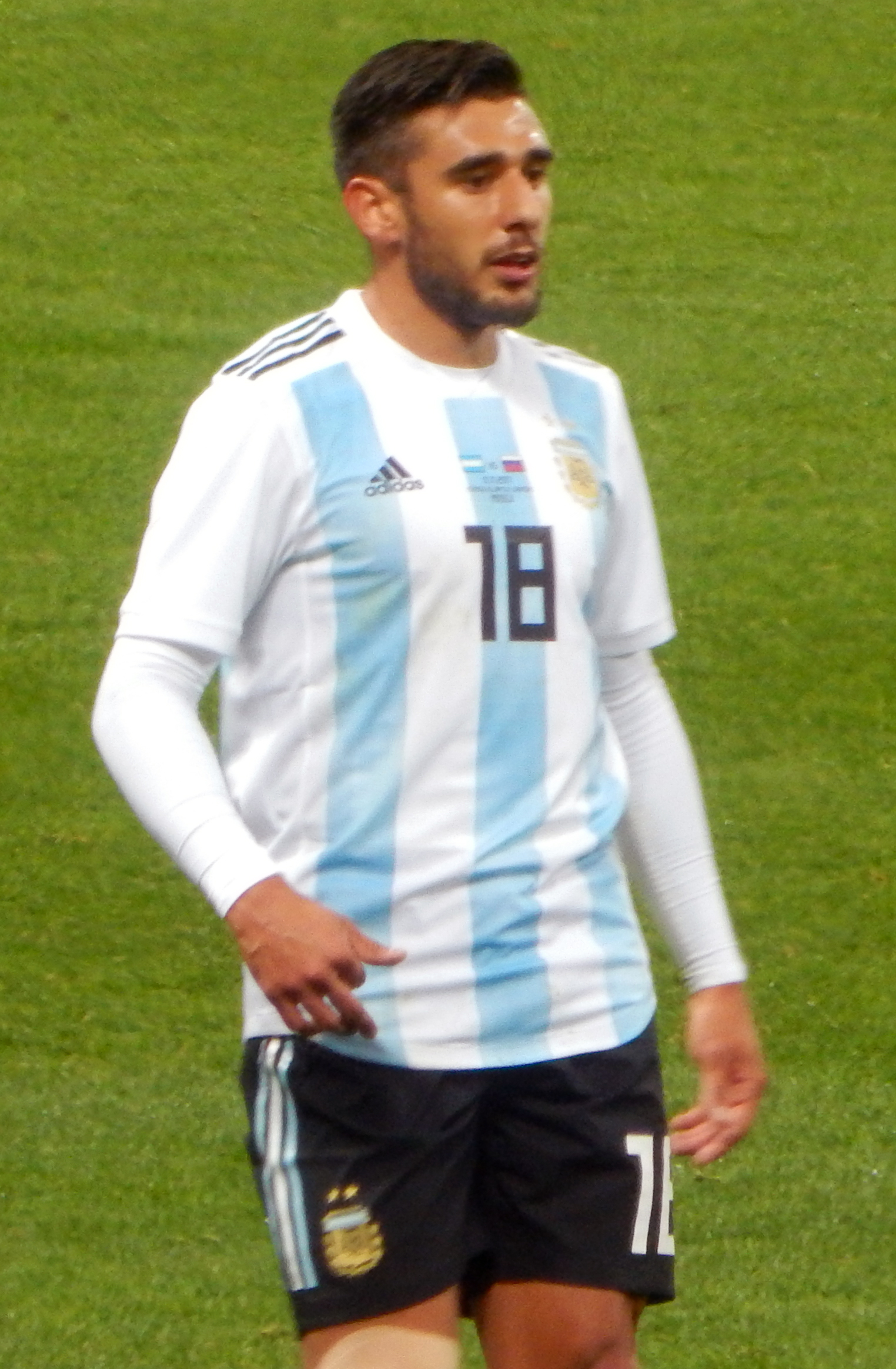 A friendly match between Russia and Argentina in Moscow, Luzhniki stadium, on November 11, 2017.